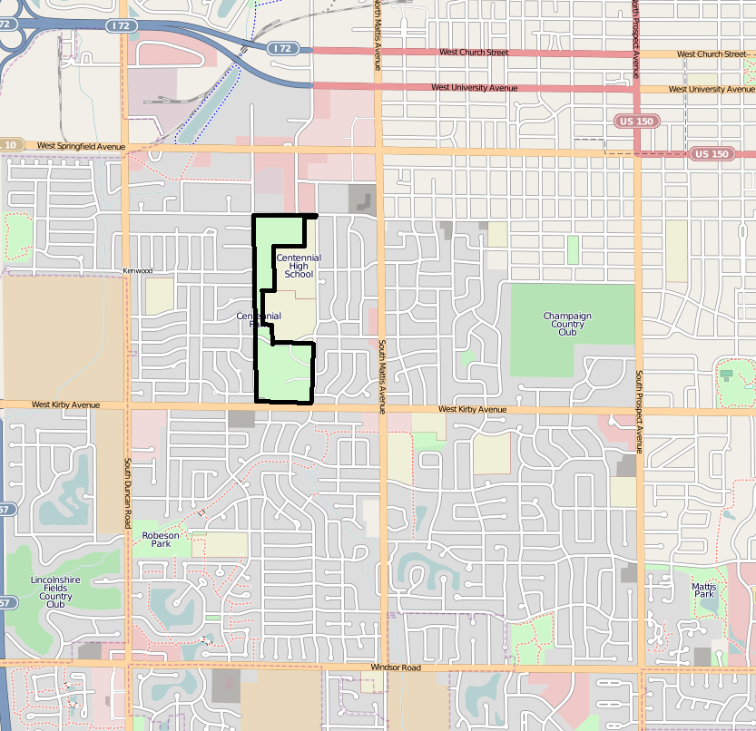 Centennial Park location in Champaign, Illinois This map may be incomplete, and may contain errors. Don't rely solely on it for navigation.